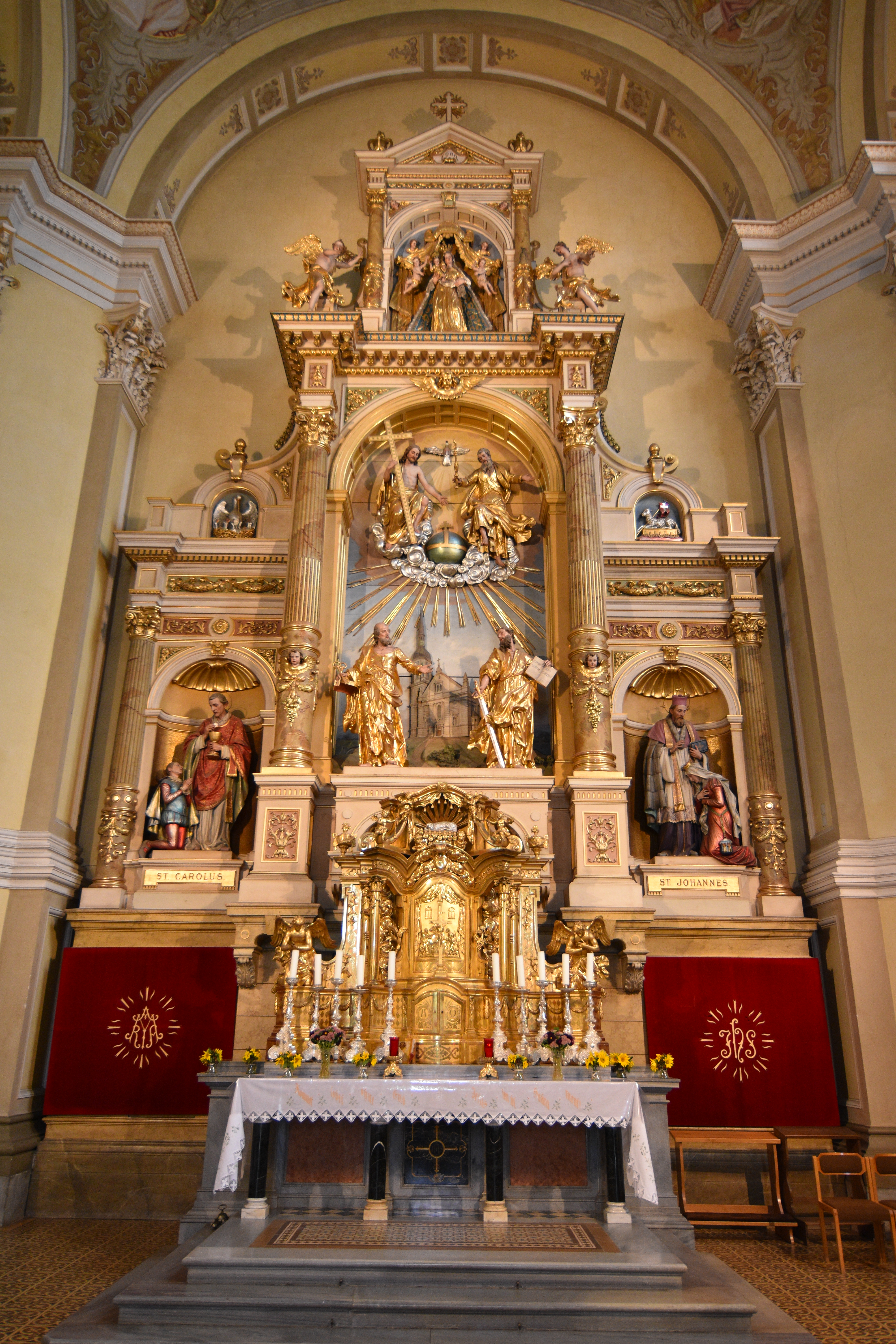 Church hl. Peter und Paul, Pischelsdorf - Interior